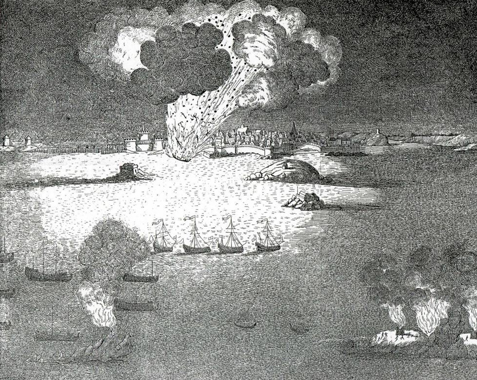 Engraving of the explosion provoked by the "Infernal machine", a fire boat of the English raid against Saint-Malo, France, in 1693